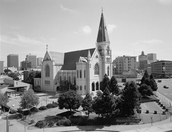 The former St. Francis de Sales Cathedral in Oakland, California. It served as the cathedral of the Catholic Diocese of Oakland from 1962 until it was damaged in the 1989 Loma Prieta earthquake. It was torn down in 1993.